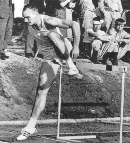 1964 Tokyo Japan US Blaine Lindgren Trained for 1964 Olympic Games Press Photo